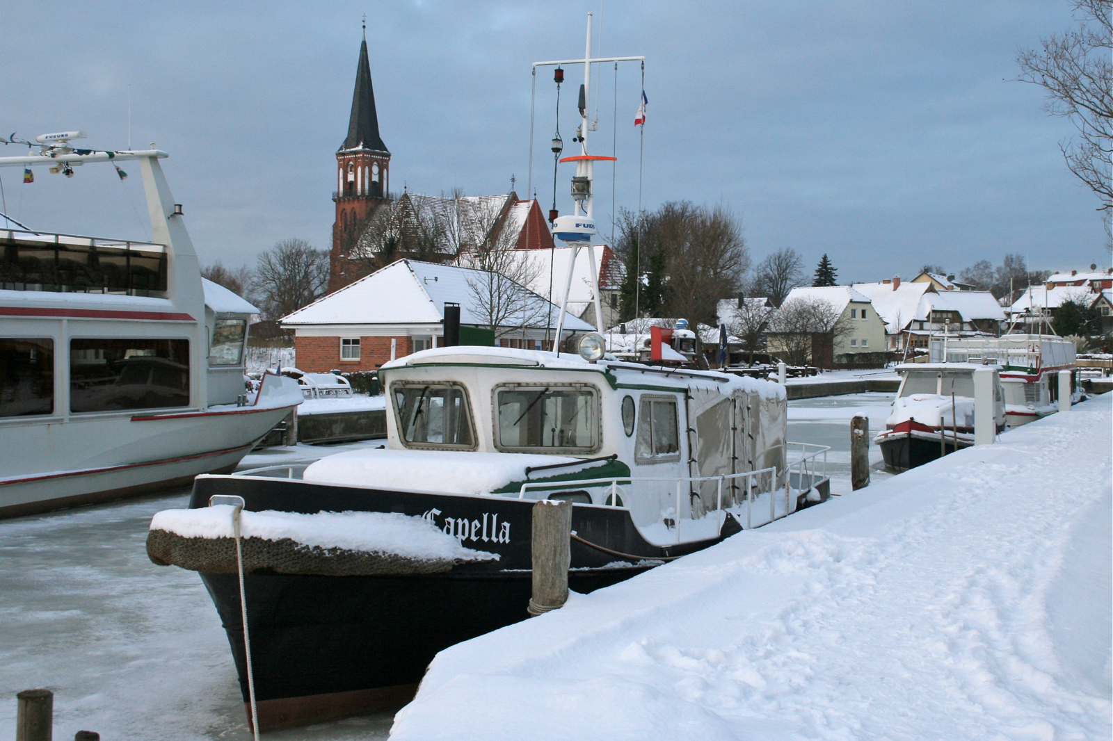 Harbour of Wustrow, Germany, after heavy snowfall in this region of the Baltic Sea shore.